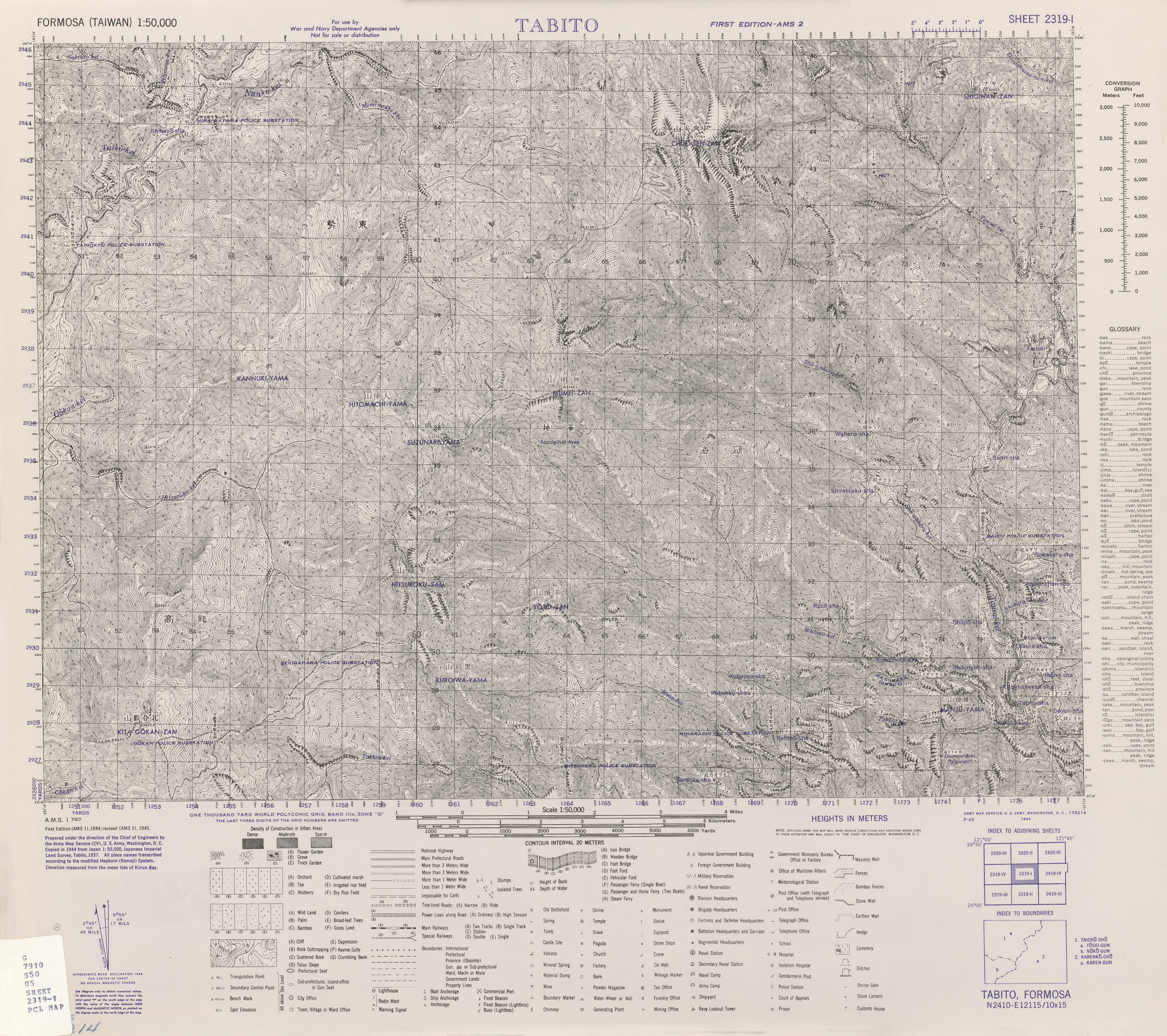 Map from Formosa (Taiwan) 1:50,000 AMS Series L792